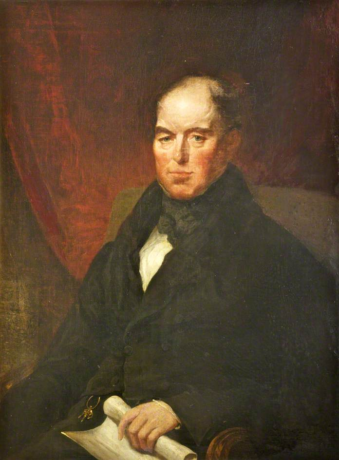 Portrait of Thomas Potter (1774–1845), English industrialist, mayor and Liberal politician.